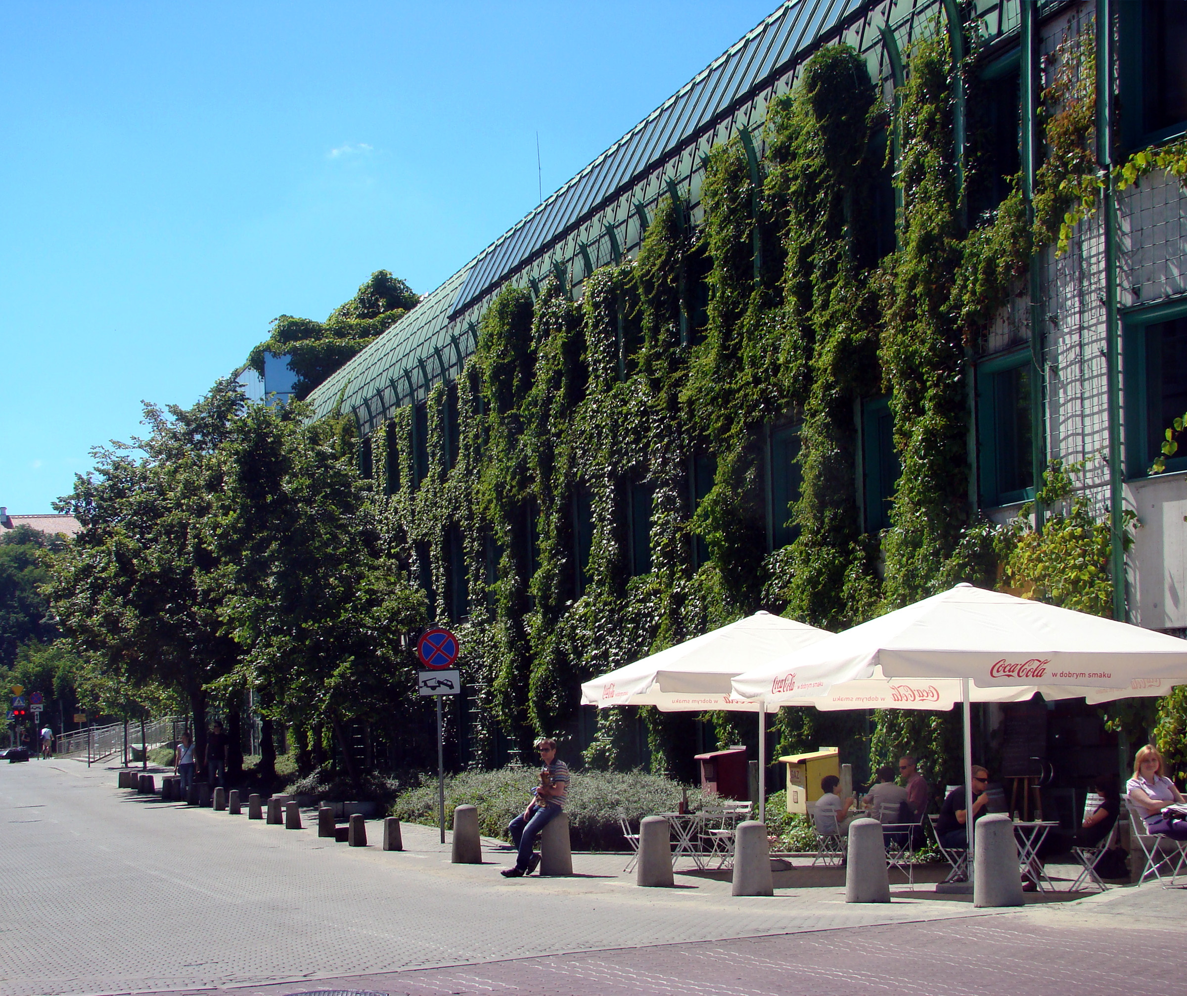 Warsaw University Library